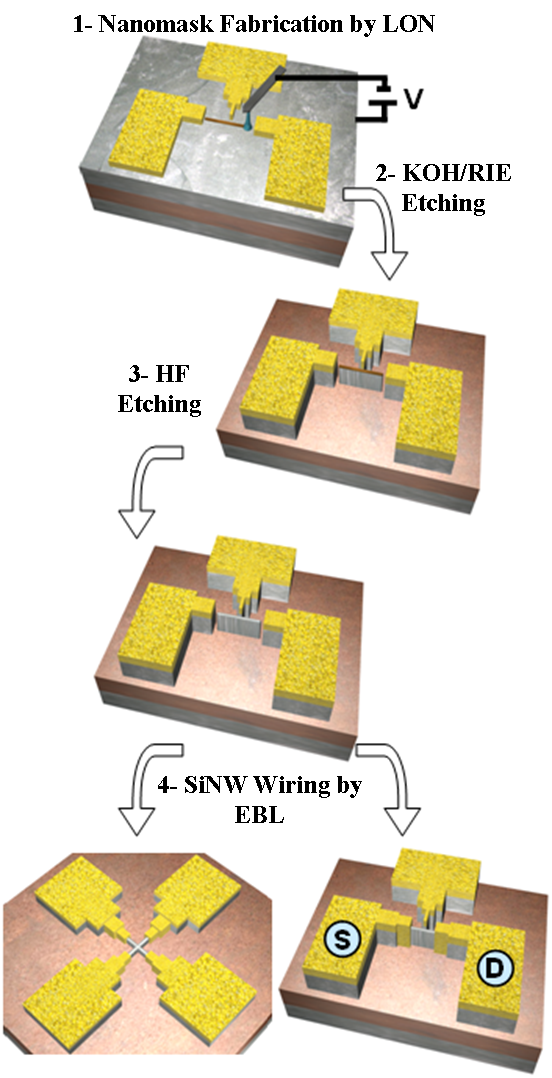 Top-down approach to the fabrication of silicon nanowire transistors by local oxidation nanolithography. A nanomask is fabricated by LON over a Silicon On Insulator substrate. After the SOI etching a SiNW is defined under the nanomask. Then the nanomask is removed with a HF etching and finally the SiNW is conected to the whole circuit using Electron Beam lithography.